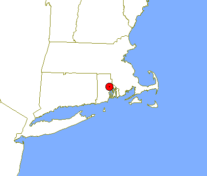 Location map of Warwick, Rhode Island